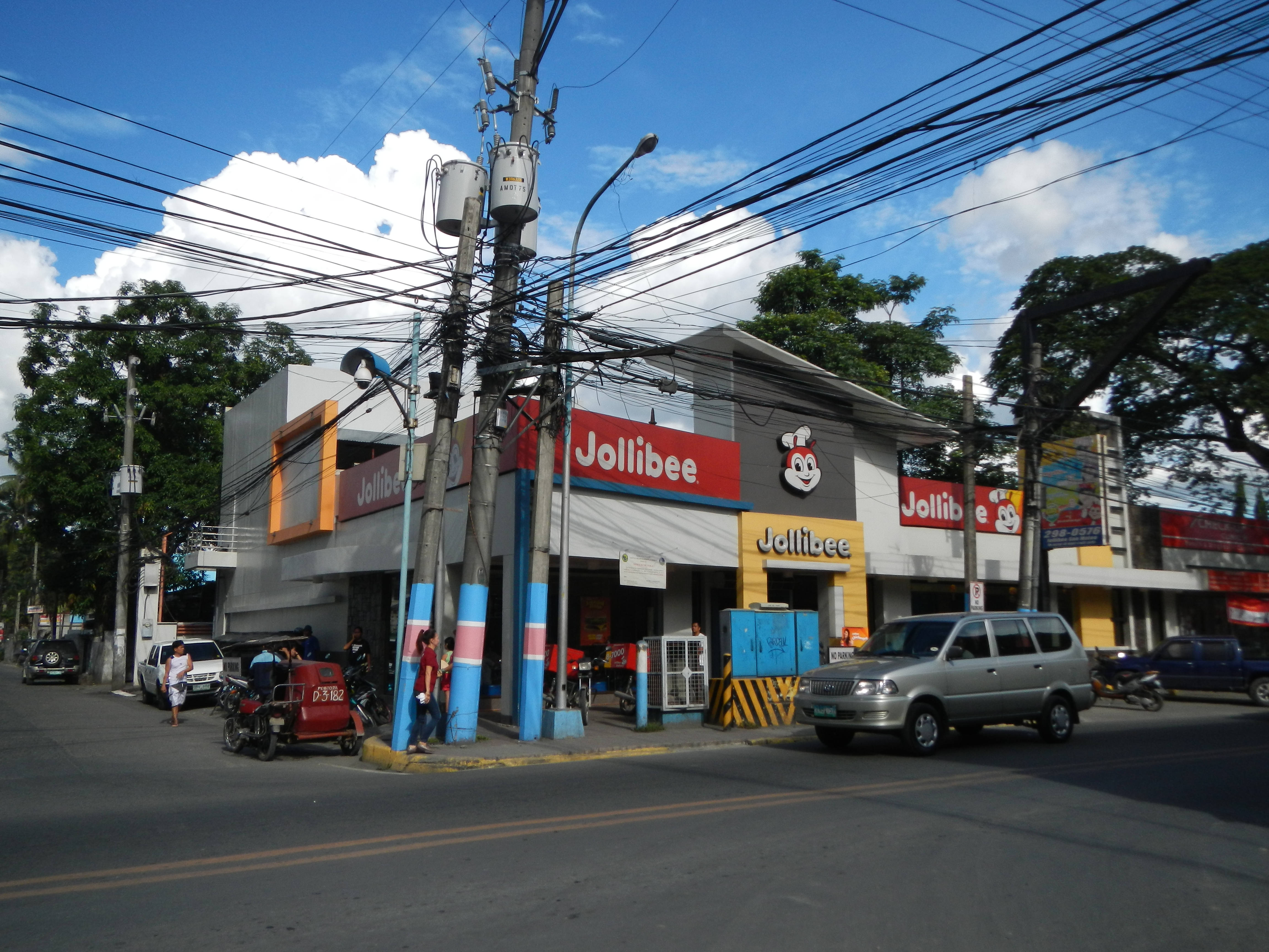 Jolllibee downtown --- San Mateo, Rizal[1] Geographical location: Rizal, Region 4, Philippines, Asia Geographical coordinates: 14° 41' 42" North, 121° 7' 4" East This building placemark is situated in Rizal, Region 4, Philippines and its geographical coordinates are 14° 41' 42" North, 121° 7' 4" East. ---------[N.B. June 4, Tuesday, 2013 Photography of - From Bulacan at 11 a.m., I took photo of Santolan LRT Station, Marikina City[2], [3] Metro Manila, the National Capital Region[4] - 12:09 p.m. and SM City Marikina, then, the town of San Mateo, Rizal[5] - 2:02 pm and Rodriguez, Rizal[6], at 4:10 pm: 20% cloudy and 80% sunny weather using my Nikon AW 100 waterproof shockproof camera.; I finished Wawa Dam[7] Rodriguez, Rizal photography at 6:03 p.m., and arrived at Bulacan at 9:30 pm after 3+ hours of travel by bus, and started uploading via slow internet at 9:50 pm - I hereby certify that these rarest, raw, original and unedited photos are exclusive for Commons and Wikipedia never uploaded in any Internet or any site, and for the public domain without any condition.]